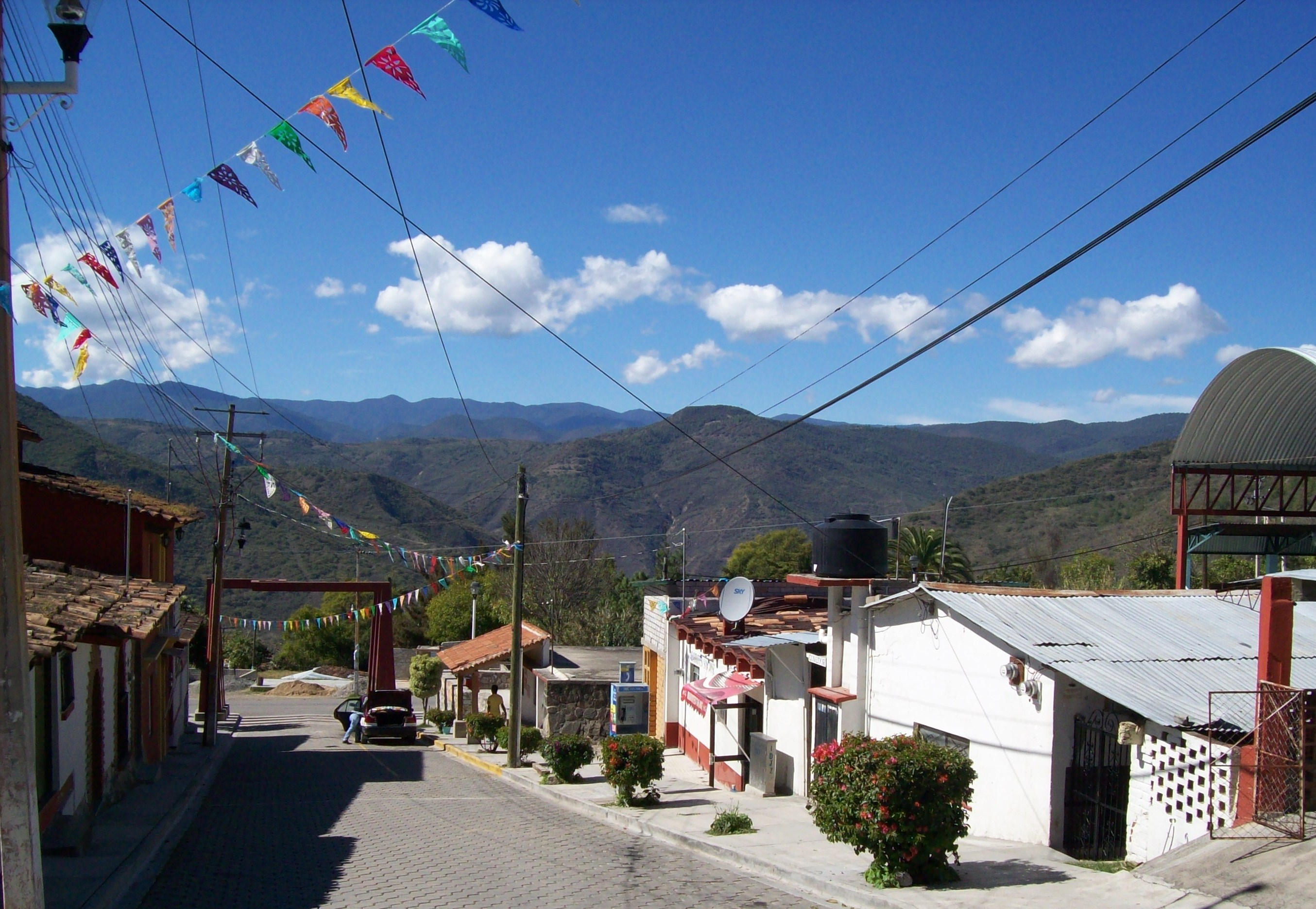 GUELATAO DE JUAREZ TOWN, MAIN STREET; OAXACA, MEXICO